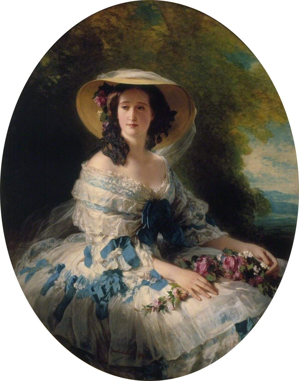 Eugénie of Montijo, Empress of France